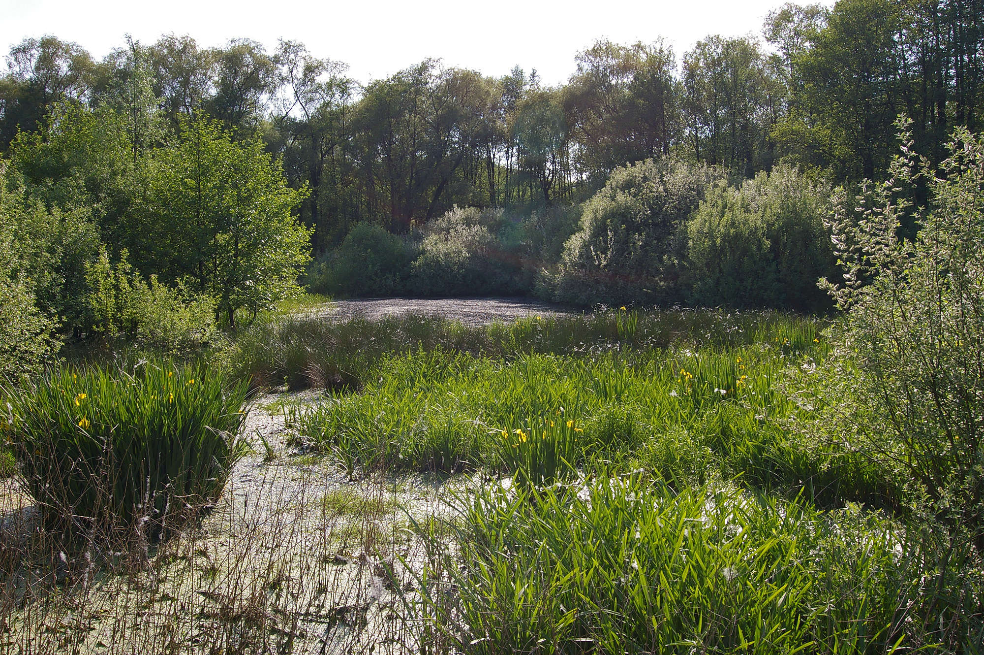 Little nature reserve "Almstorfer Moor" in the district Uelzen, between the villages Strothe and Almstorf; here the eastern area with reed swamp and wooded central part (background).